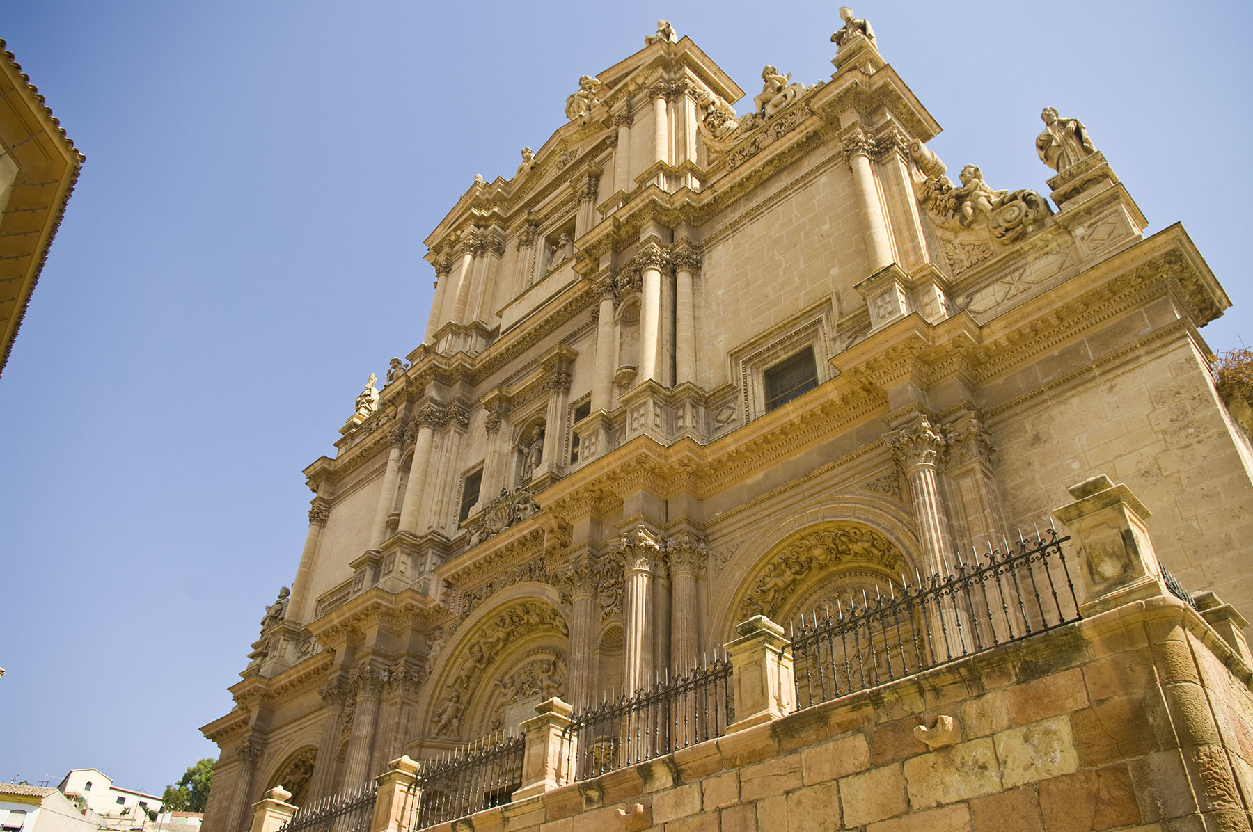 Fachade of Collegiate Church of St. Patrick in Lorca (Murcia)